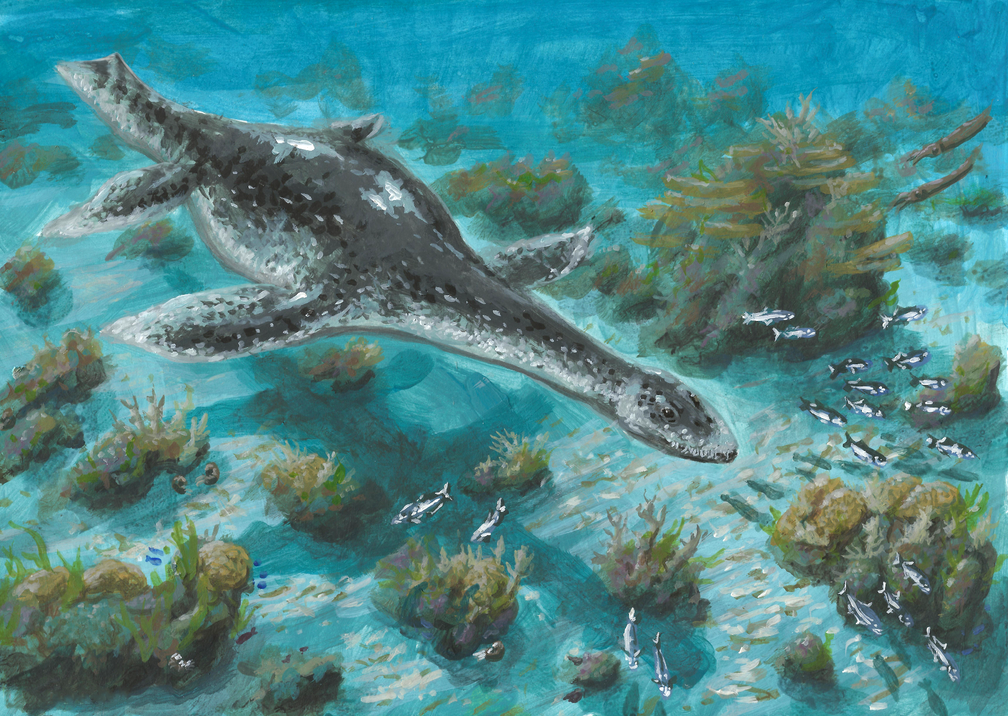 Kimmerosaurus swims through a shallow jurassic reef in this reconstruction